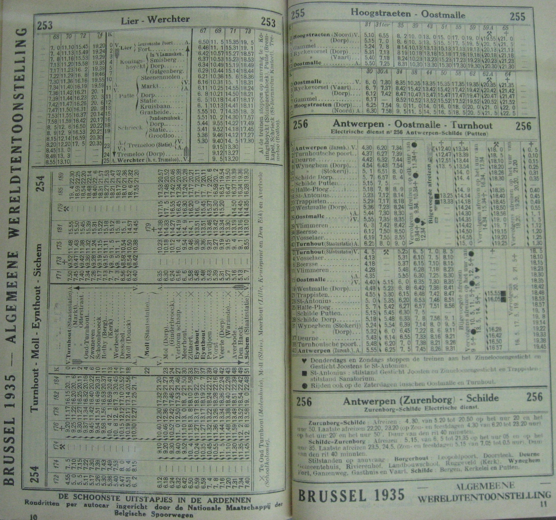 Timetable picture shows 4 local vicinal trainservices in the Antwerp province, in the summer off 1933: 253 Lier Putte Tremelo Werchter 254 Turnhout Mol Zichem 255 Hoogstraten Oostmalle 256 Antwerpen Oostmalle Turnhout Run bij de NMVB (Nationale Maatschappij van Buurtspoorwegen) on metergauge.